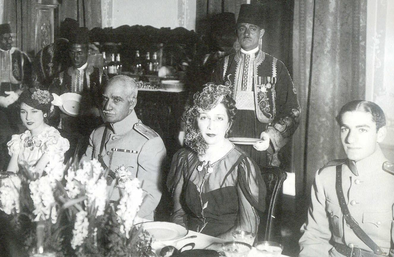 From left to right: Fawzia Fuad, Reza Shah, Nazli Sabri (Fawzia's mother), Mohammad Reza Pahlavi